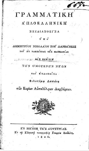 Diimíitrios N . Darvari̱s , Grammatiki Aploelli̱niki , En Vienni̱ ti̱s Aoustrias , 1806 , FSA 2491